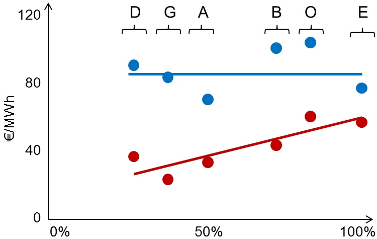 Costs of heating (vertical axis) compared with the exergy content of different energy carriers (horizontal axis) in Finland. Energy carriers included are district heating (D), ground-source heat pump (G), exhaust air heat pump (A), bioenergy meaning firewood (B), heating oil (O) and direct electric heating (E). Red dots and trend line indicates energy prices for consumers, blue dots and trend line indicates total price for consumers including capital expenditure for the heating system. Source for data: A. Müller, L. Kranzl, P. Tuominen, E. Boelman, M. Molinari, A.G. Entrop: Estimating exergy prices for energy carriers in heating systems: Country analyses of exergy substitution with capital expenditures. Energy and Buildings, Volume 43, Issue 12, December 2011, Pages 3609–3617.